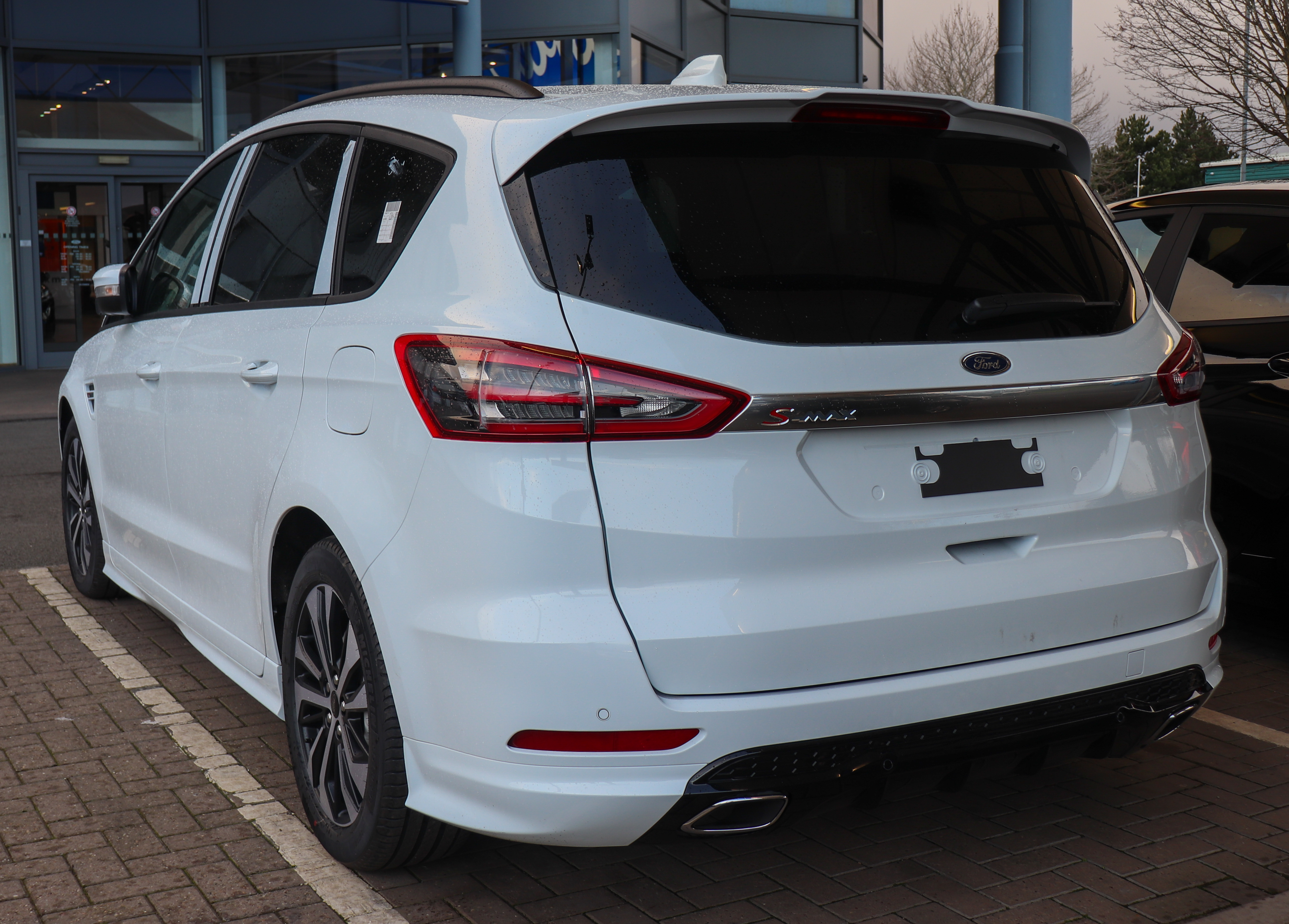 2020 Ford S-Max ST-Line facelift Rear Taken in Leamington Spa